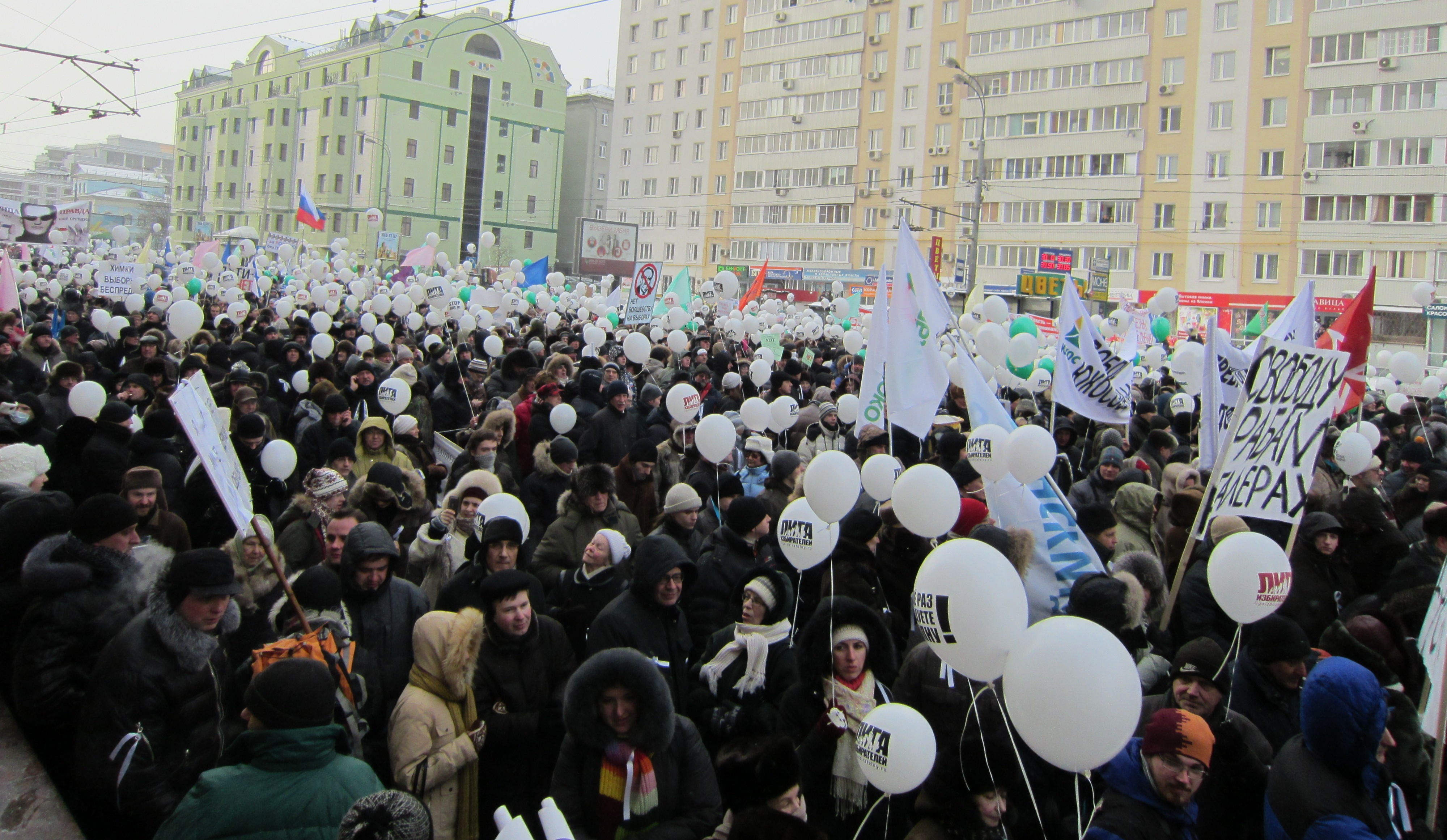 Moscow rally 4 February 2012, protesters at Bolshaya Yakimanka Street, Moscow